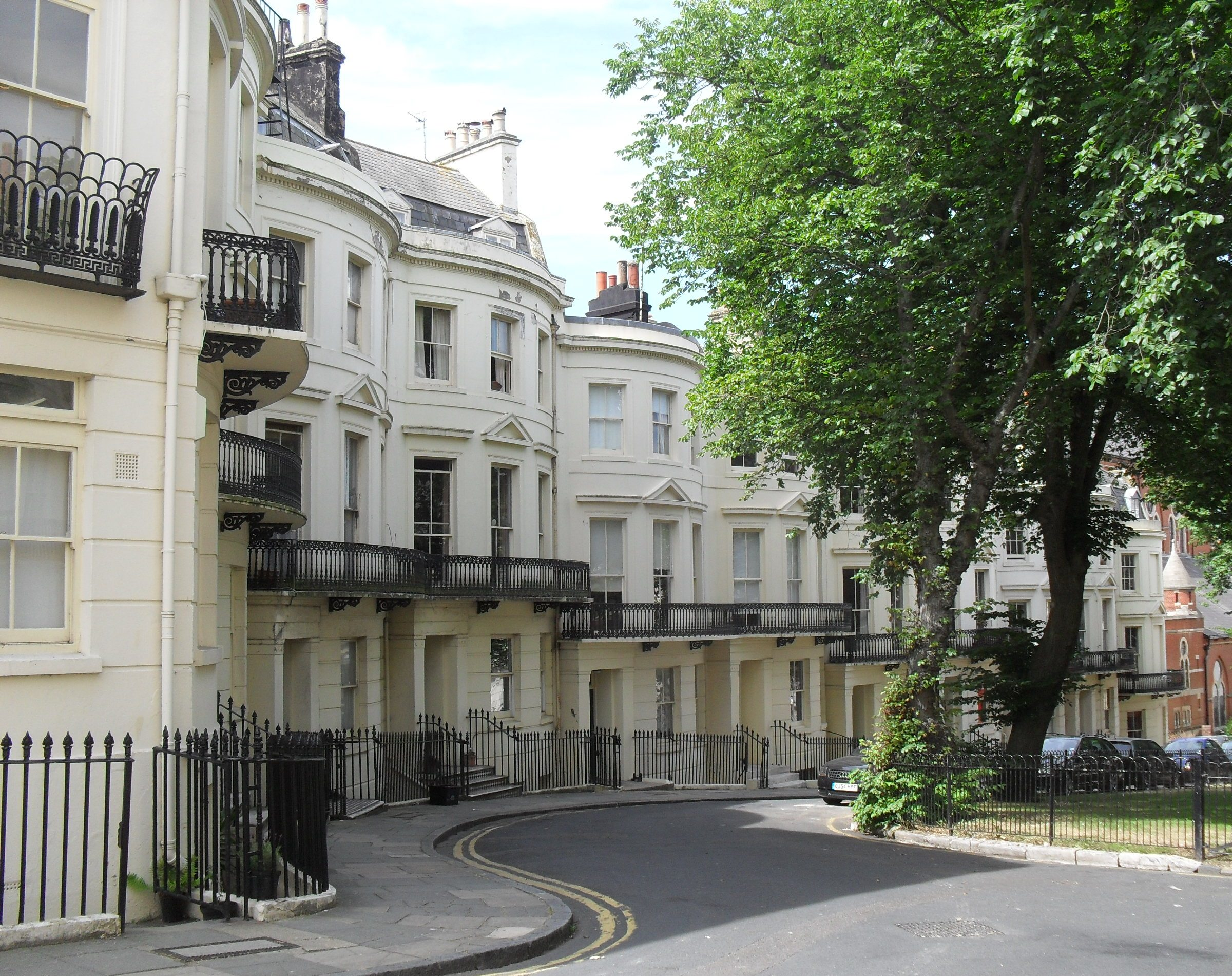 14–24 Powis Square, Montpelier, City of Brighton and Hove, England. Listed at Grade II by English Heritage (NHLE Code 1380729)